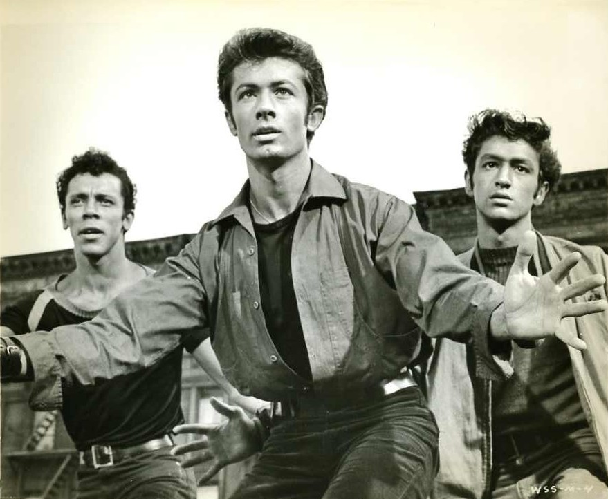 Frame enlargement from a still from West Side Story (1961) with George Chakiris in the center